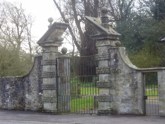 Calder House An ancient entrance to and ancient house, home of the Sandiland family, Lords Torphican